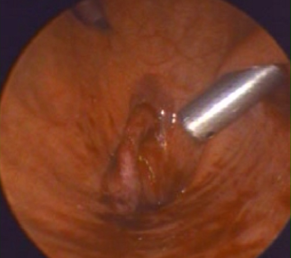 Pneumovesicosccopic view of left ureter that has been pulled in through a new opening in the bladder.